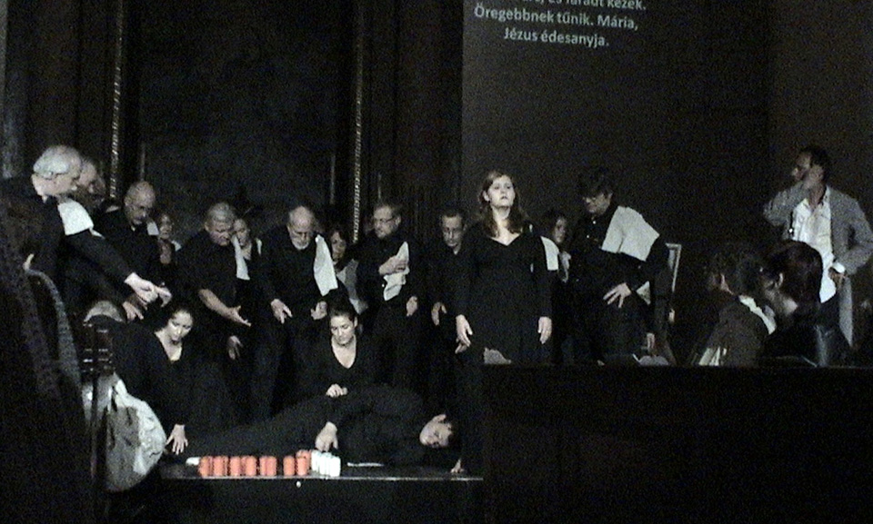 Ferenc Liszt: Via crucis. Performance in the Downtown Lutheran Church, International Opera Festival, 2011.